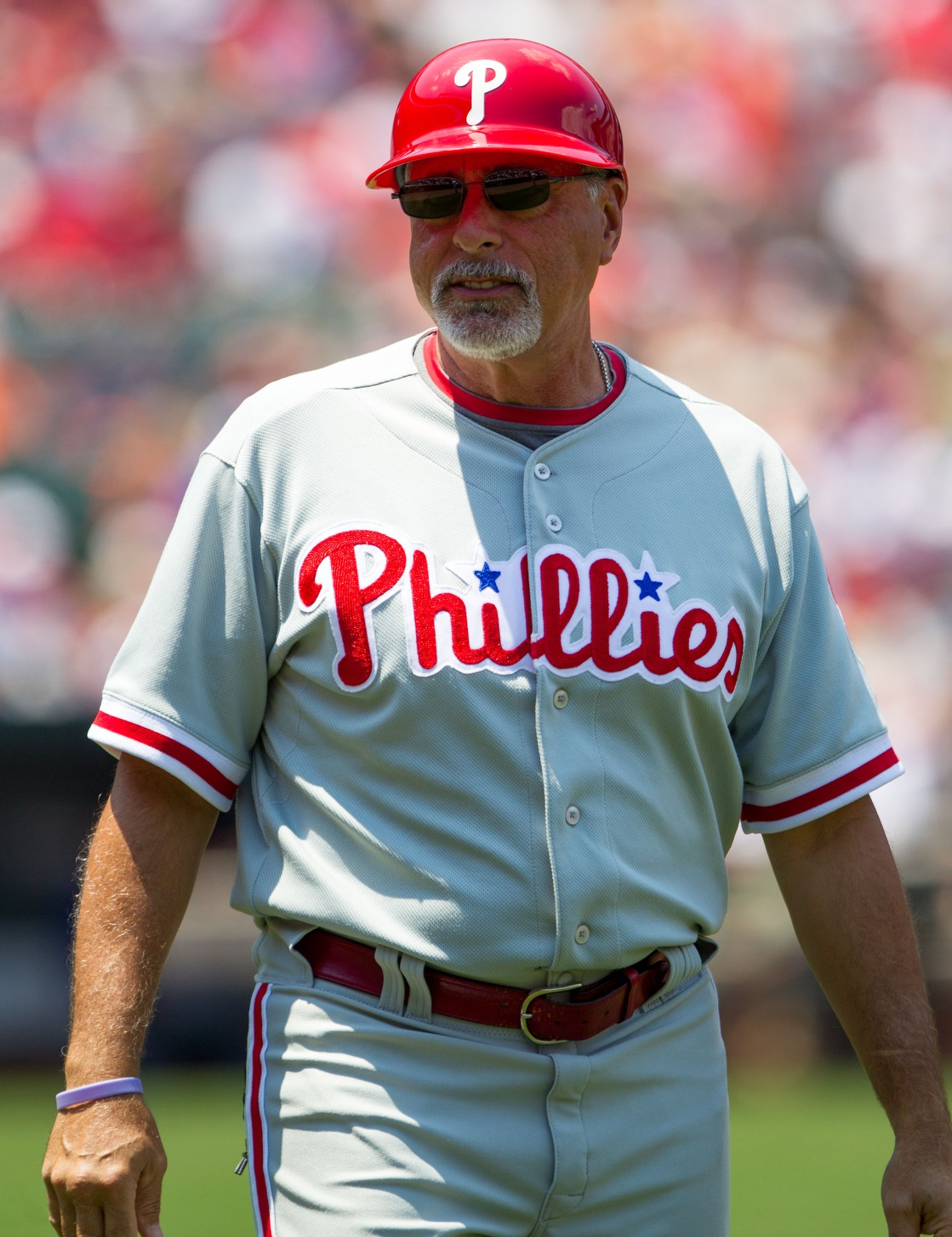 Philadelphia Phillies first base coach Sam Perlozzo - Phillies at Orioles June 10, 2012